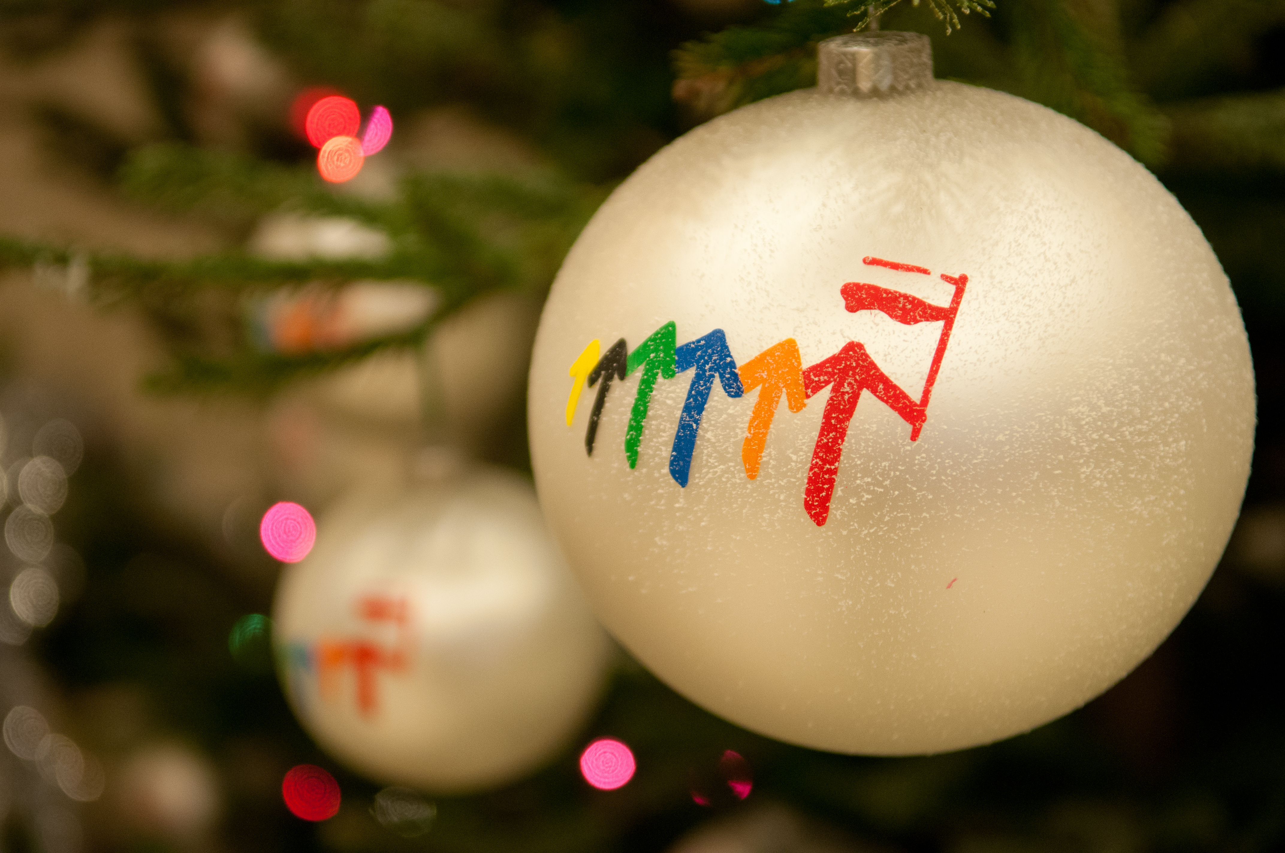 Polish Presidency 01/07/2011 - 31/12/2011